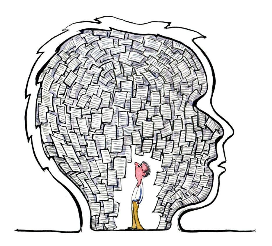 Wikipedia version of my illustration about images and words (notes)